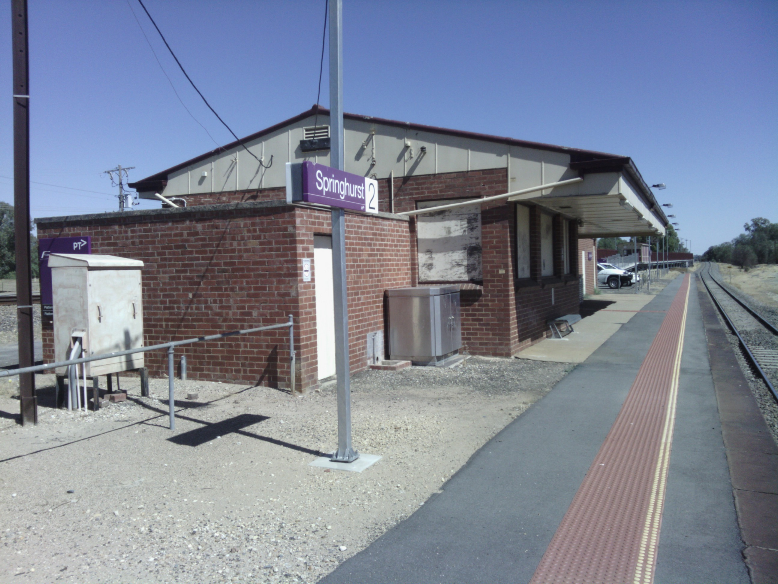 Springhurst railway station, Platform 2.